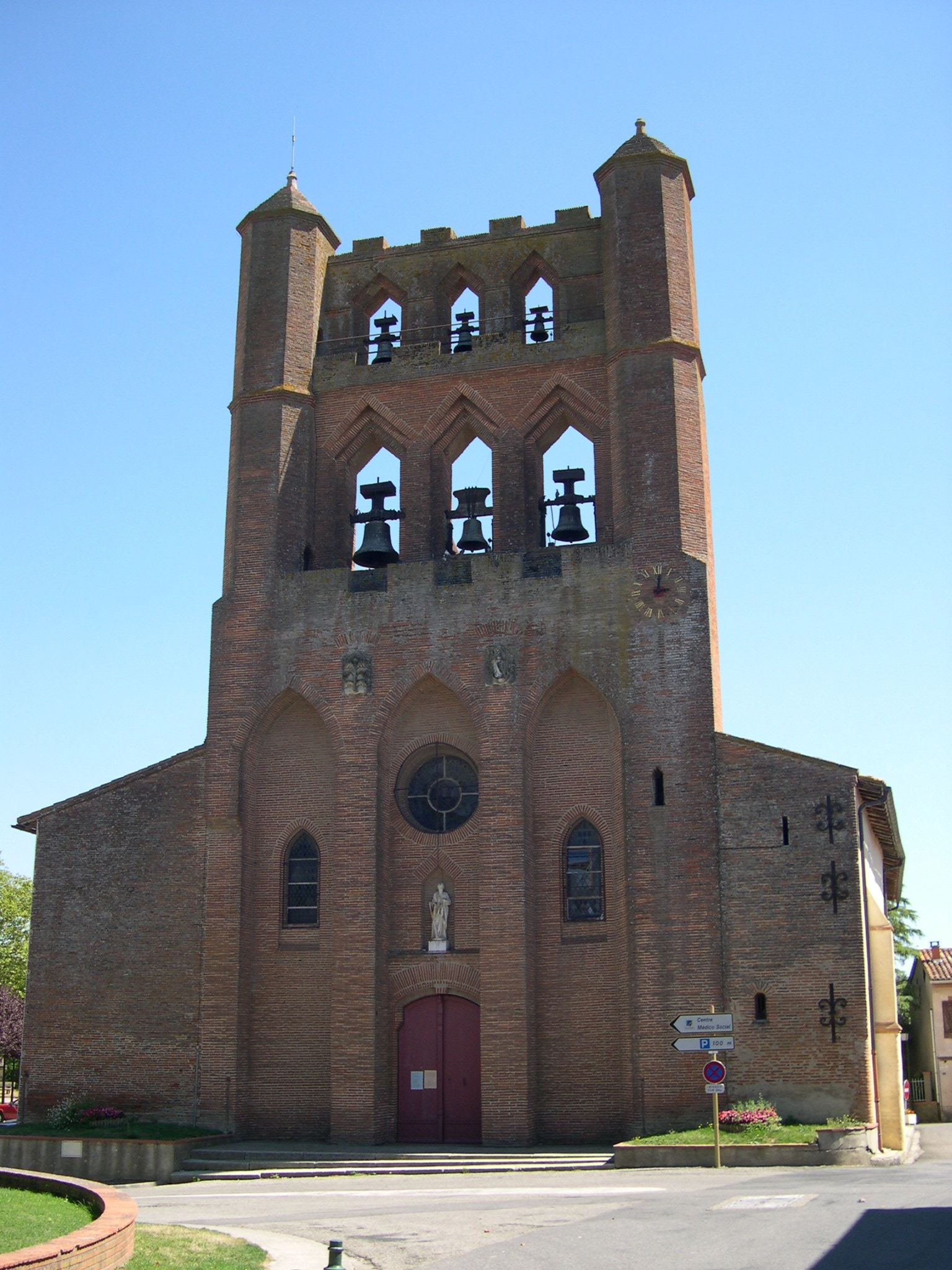 Bell tower of the church of Montgiscard (France).